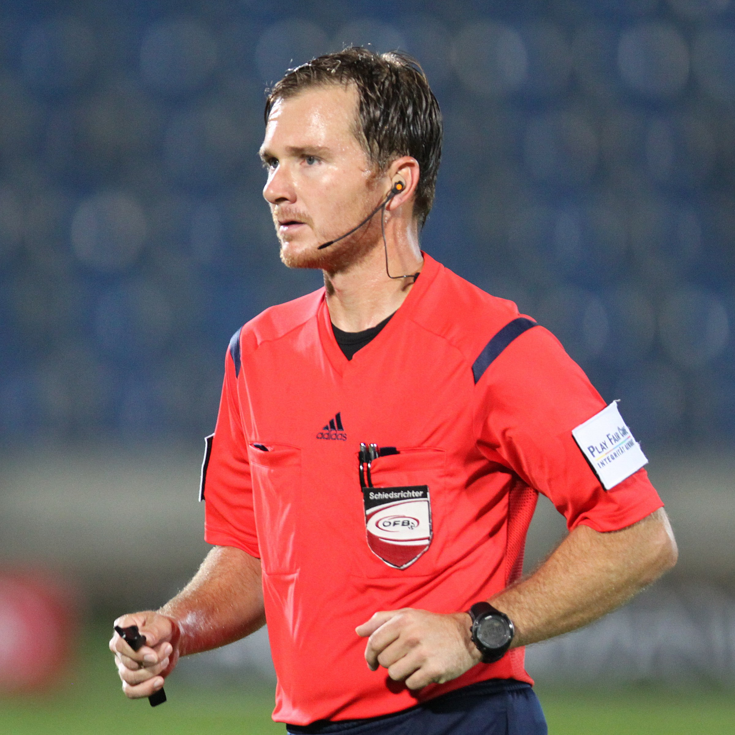 Match of the Erste Liga – SC Wiener Neustadt (blue/white shirts) vs. FC Wacker Innsbruck (green/black shirts) 1–2 (0–1) on 2015-09-15 in the Stadion in Wiener Neustadt – The photo shows referee Dieter Muckenhammer.